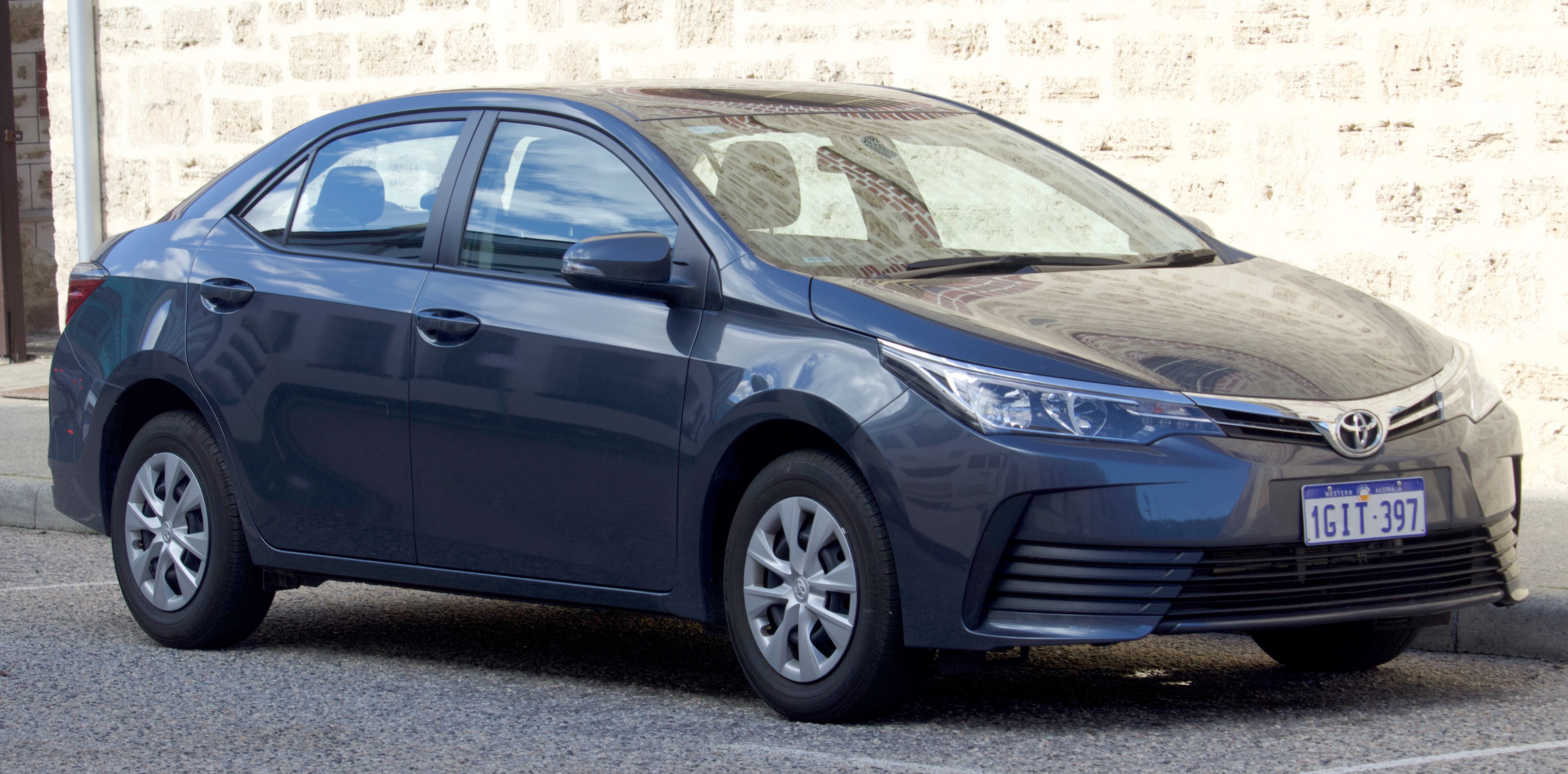 2017 Toyota Corolla (ZRE172R) Ascent sedan. Photographed in Fremantle, Western Australia, Australia.